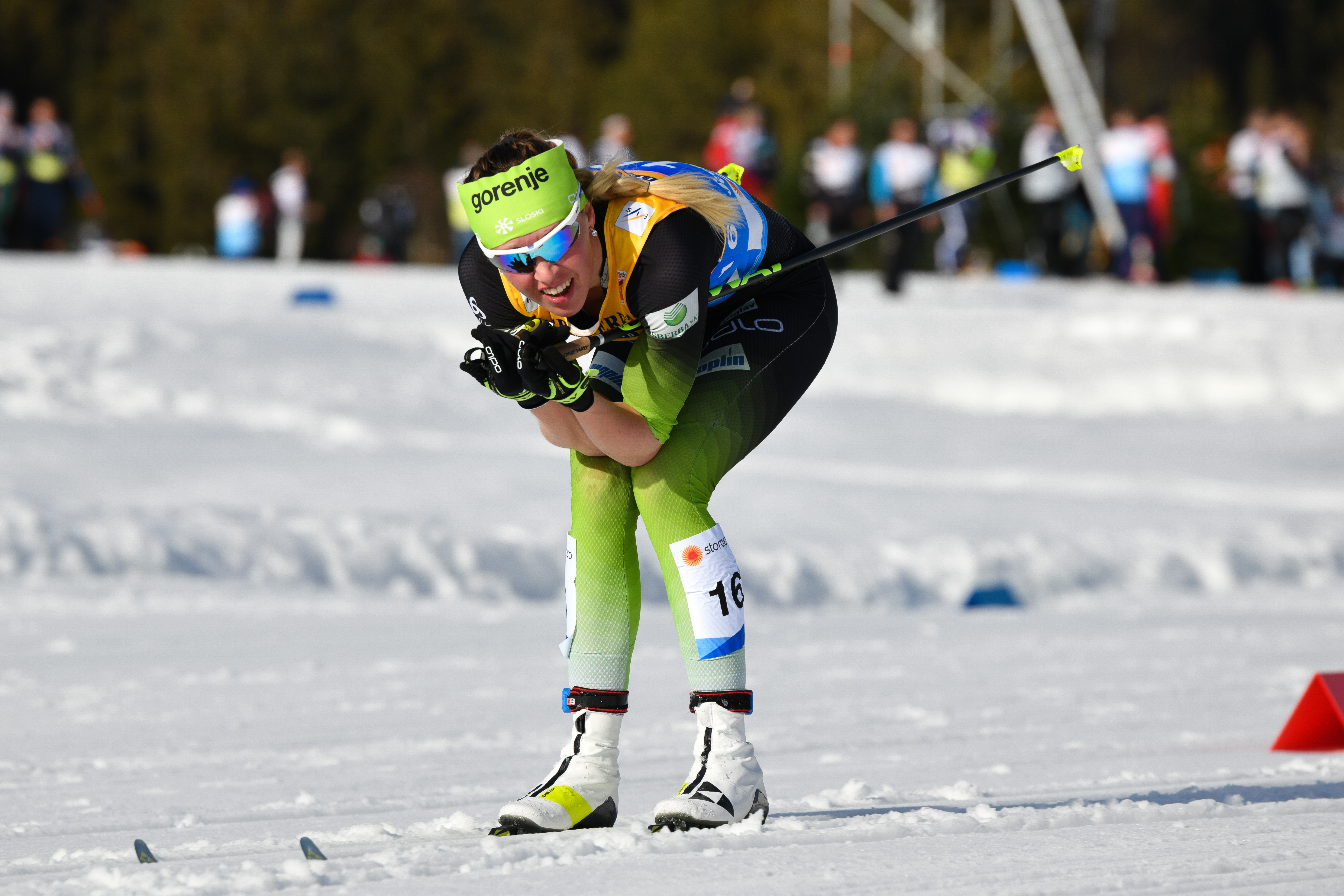 FIS Nordic World Ski Championships Seefeld 2019 - Ladies Cross Country 10km. Picture shows Anamarija Lampic (SLO).